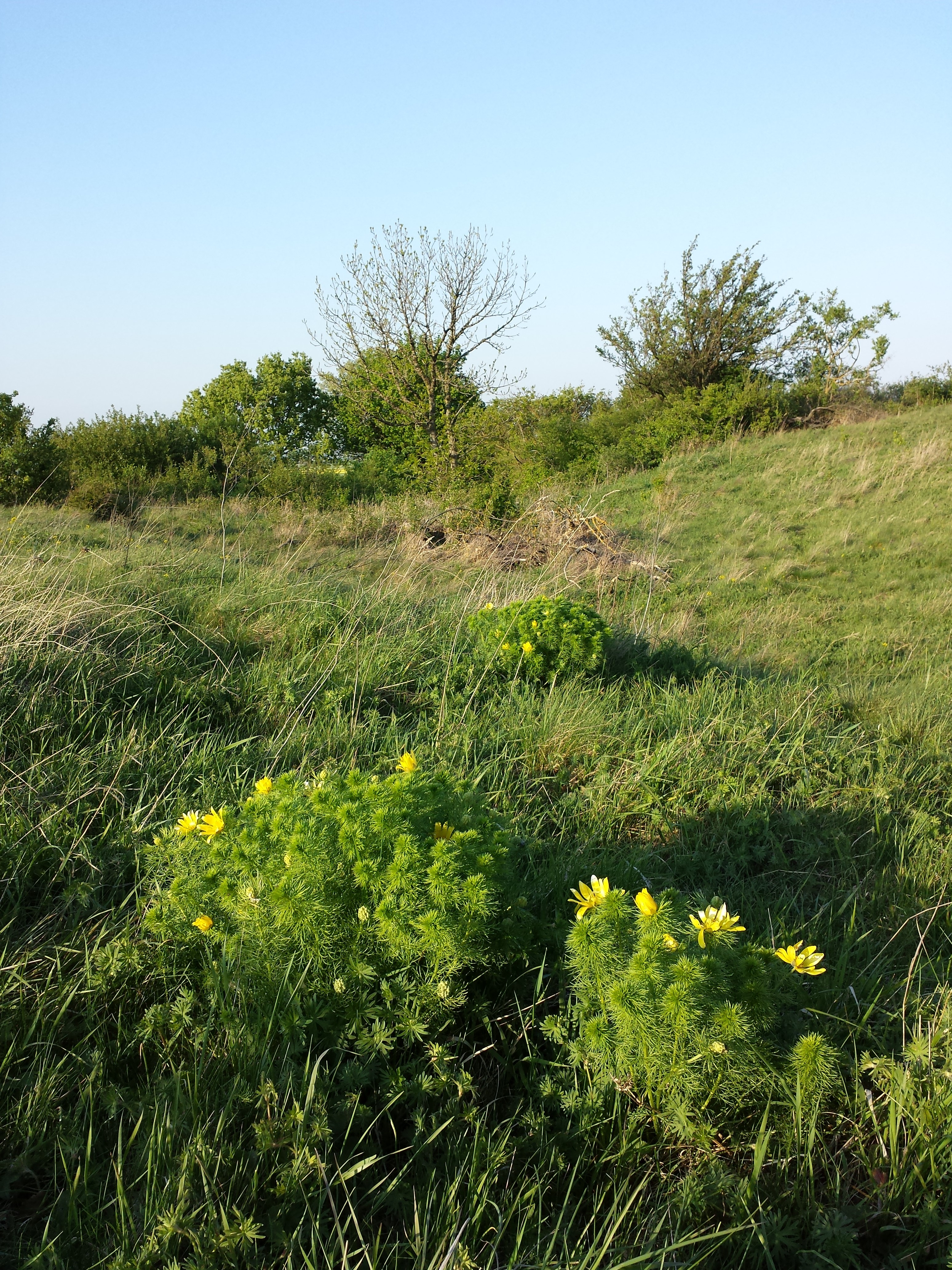 Habitat Taxon: Adonis vernalis (sensu Fischer et al. EfÖLS 2008 ISBN 978-3-85474-187-9) Location: Alte Schanzen, object XI, Floridsdorf, Vienna - ca. 225 m a.s.l. Habitat: dry grassland